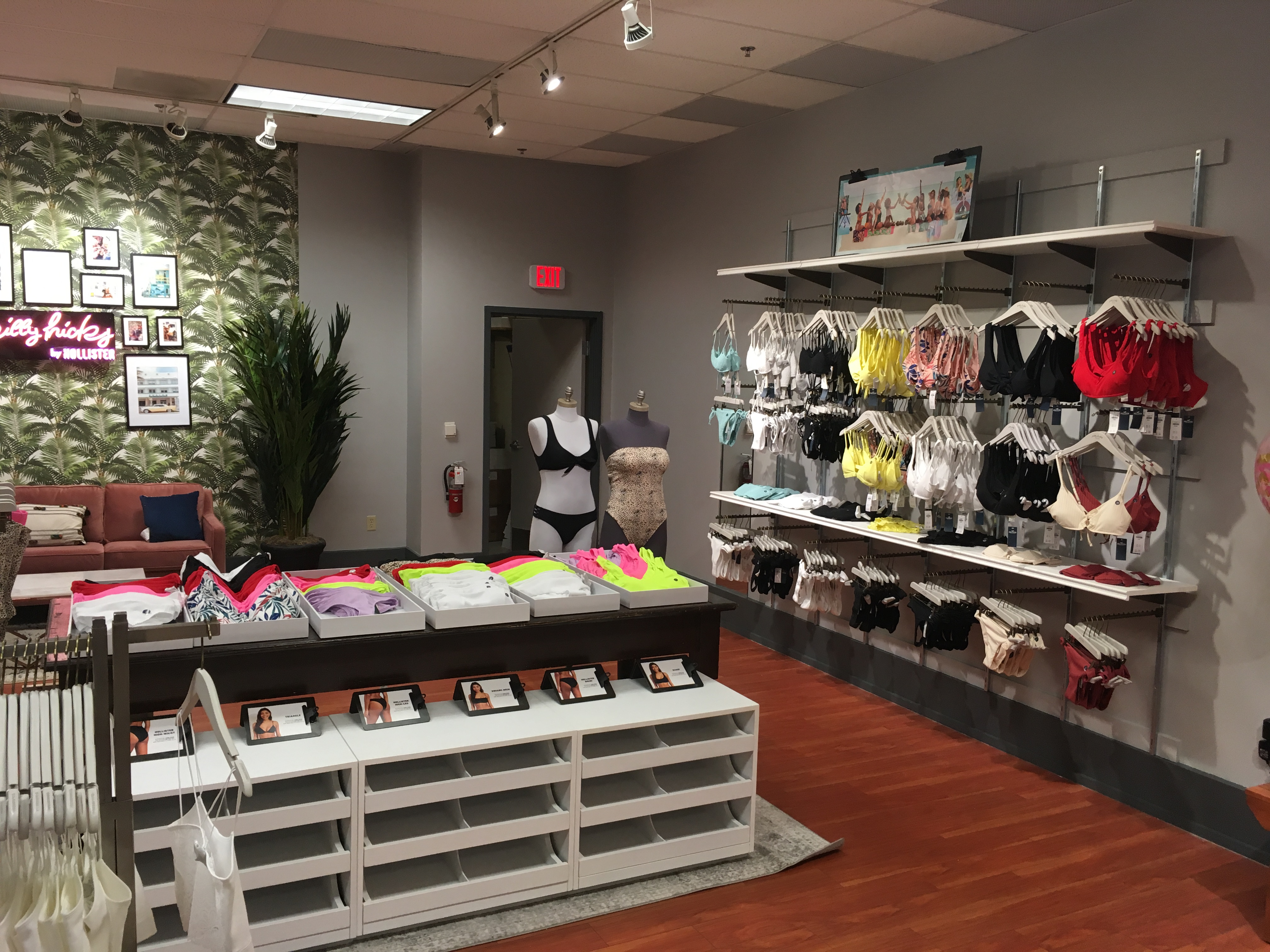 Gilly Hicks pop-up location at Dolphin Mall in Miami, FL